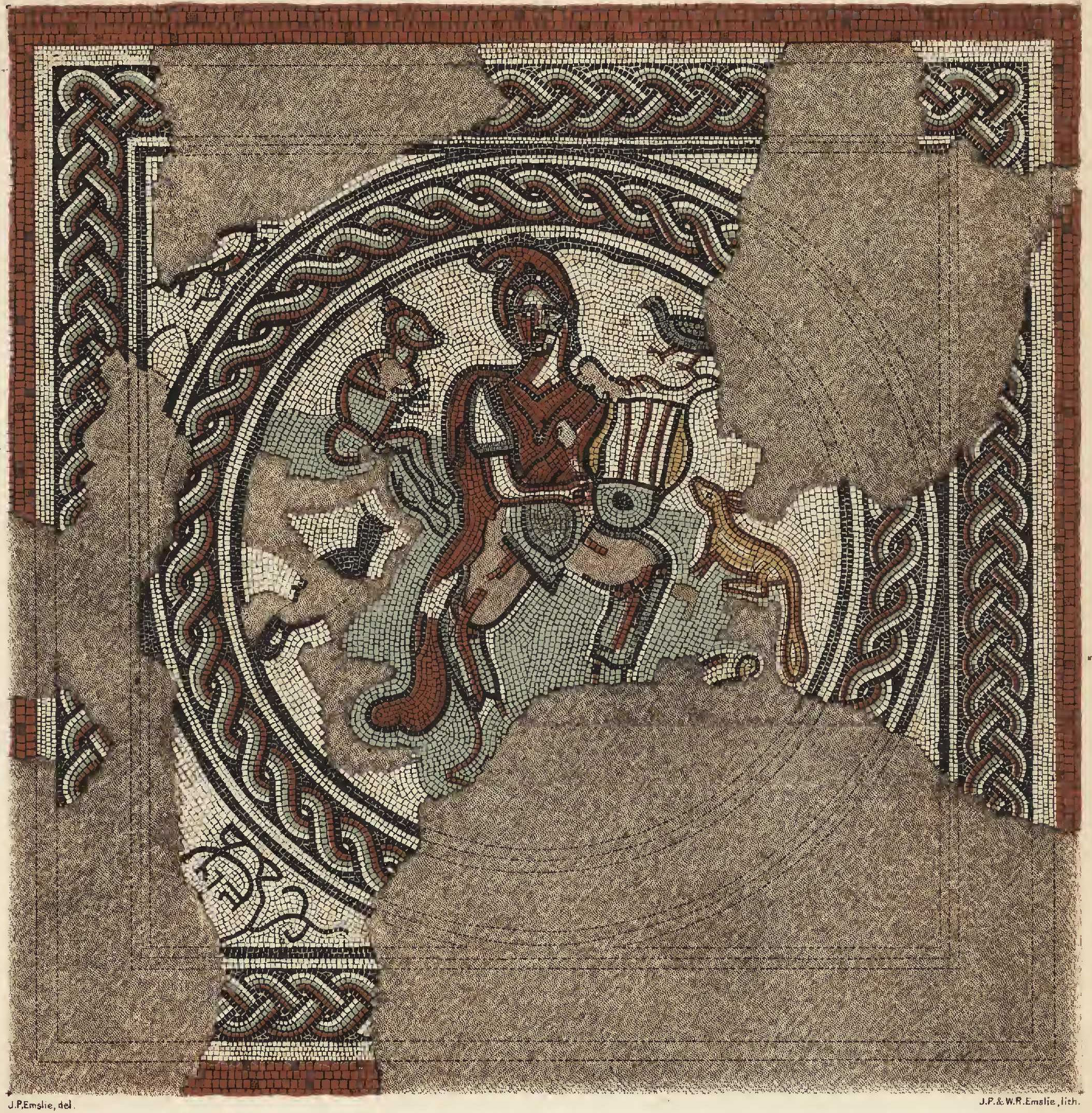 Mosaic from Roman villa at Brading